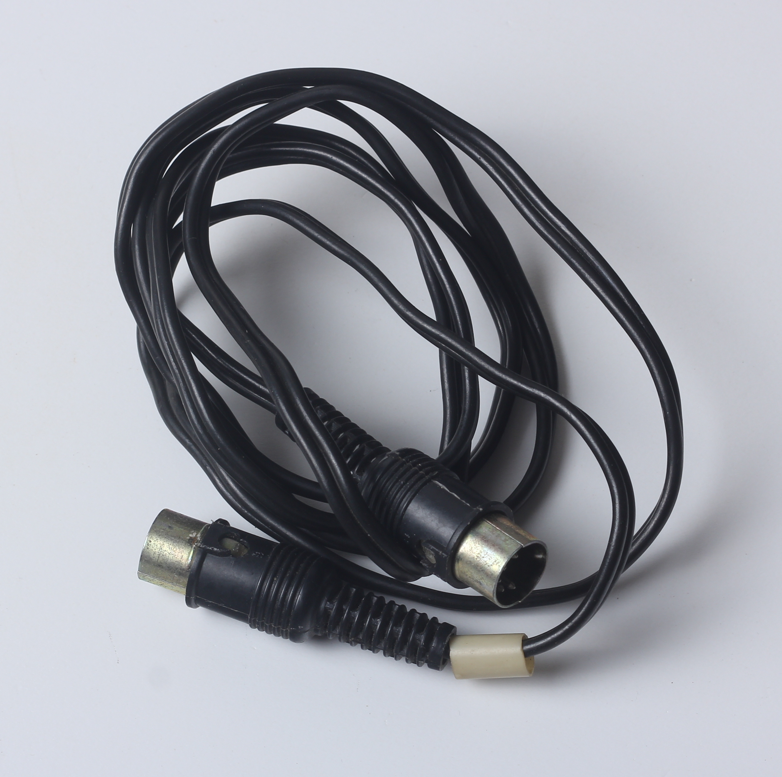 Audio connectors USSR